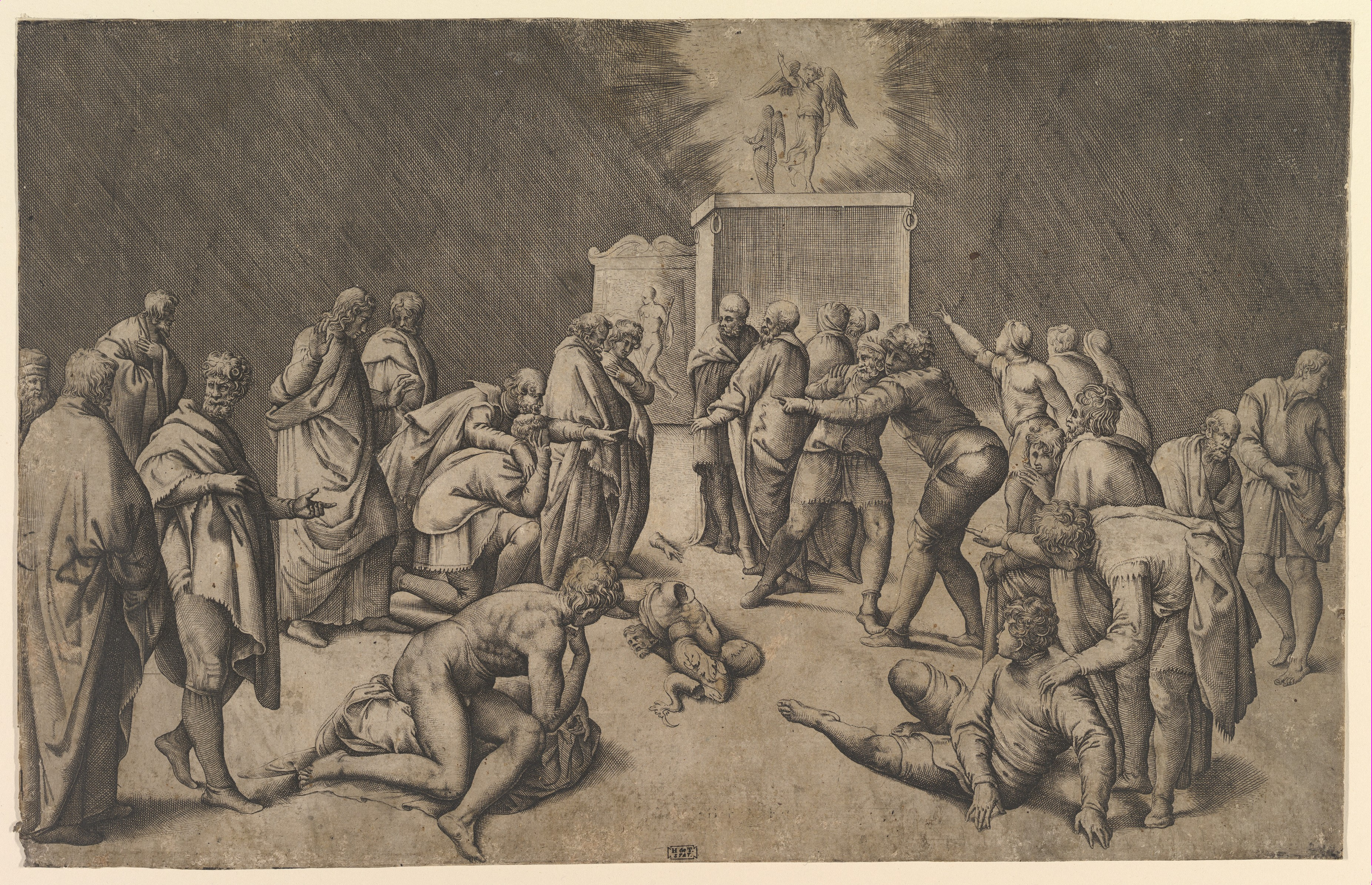 Print; Prints